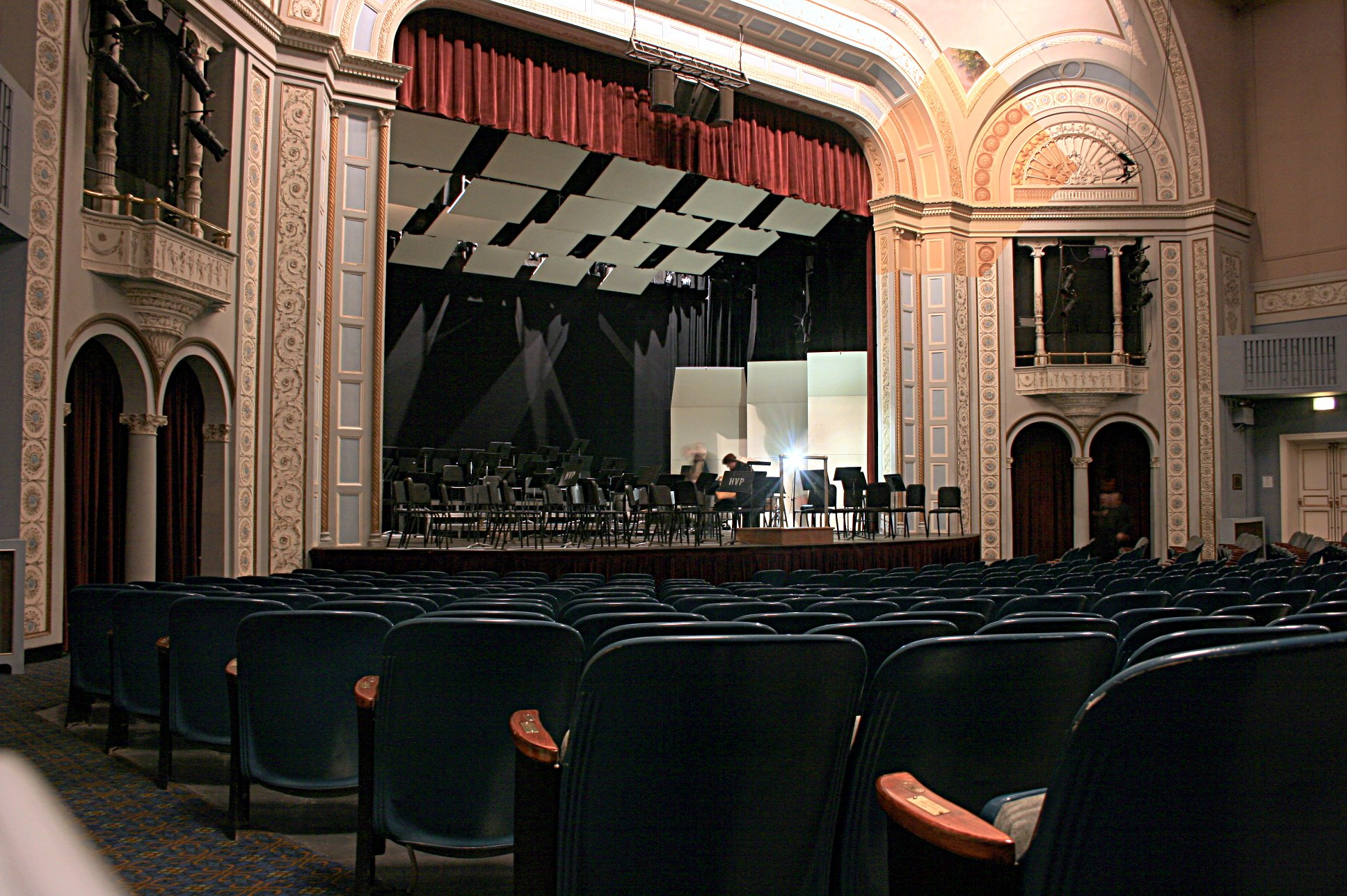 Photograph of the stage in the Bardavon 1869 Opera House in Poughkeepsie, New York, USA